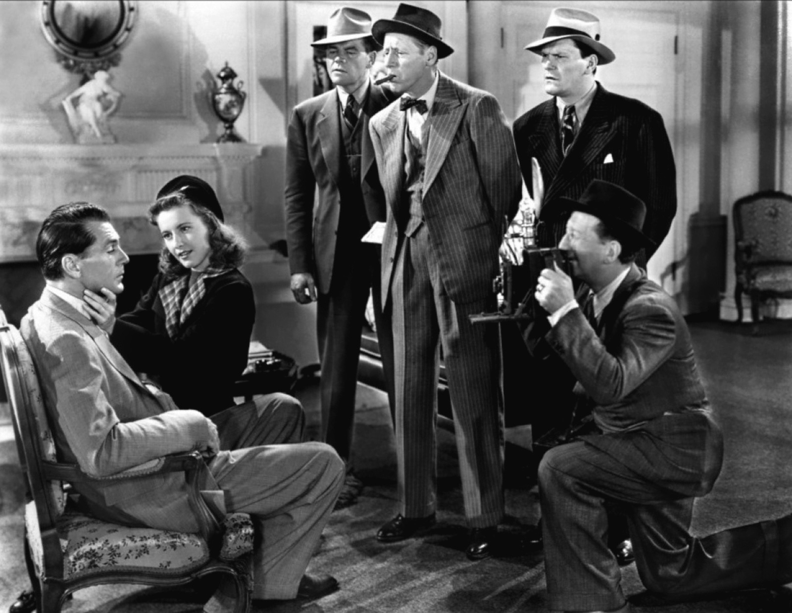 Left to right: Gary Cooper, Barbara Stanwyck, Pat Flaherty, Irving Bacon, Warren Hymer, and Hank Mann in Meet John Doe (1941) - cropped screenshot or still